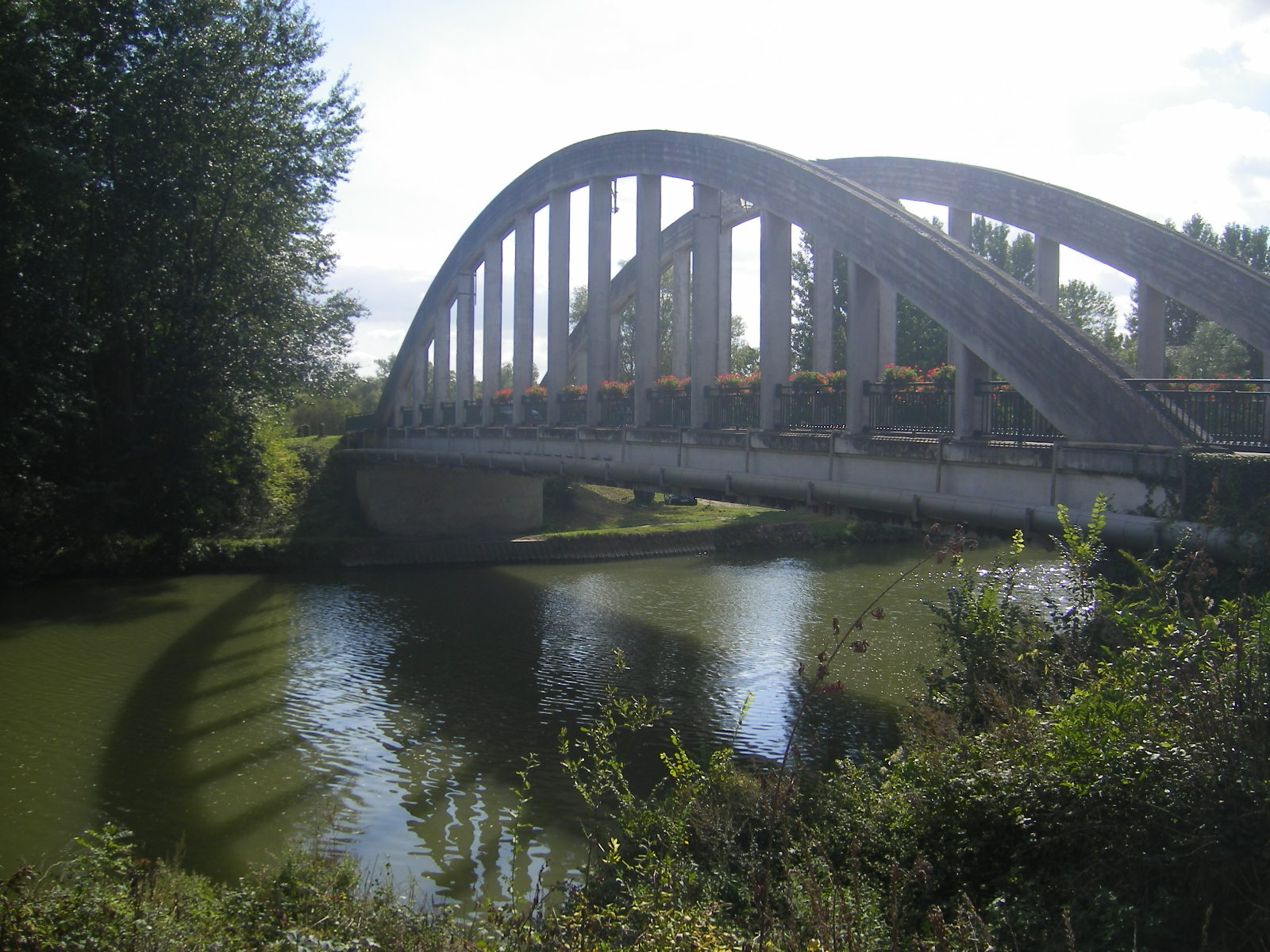 Pommiers - bridge over the Aisne River